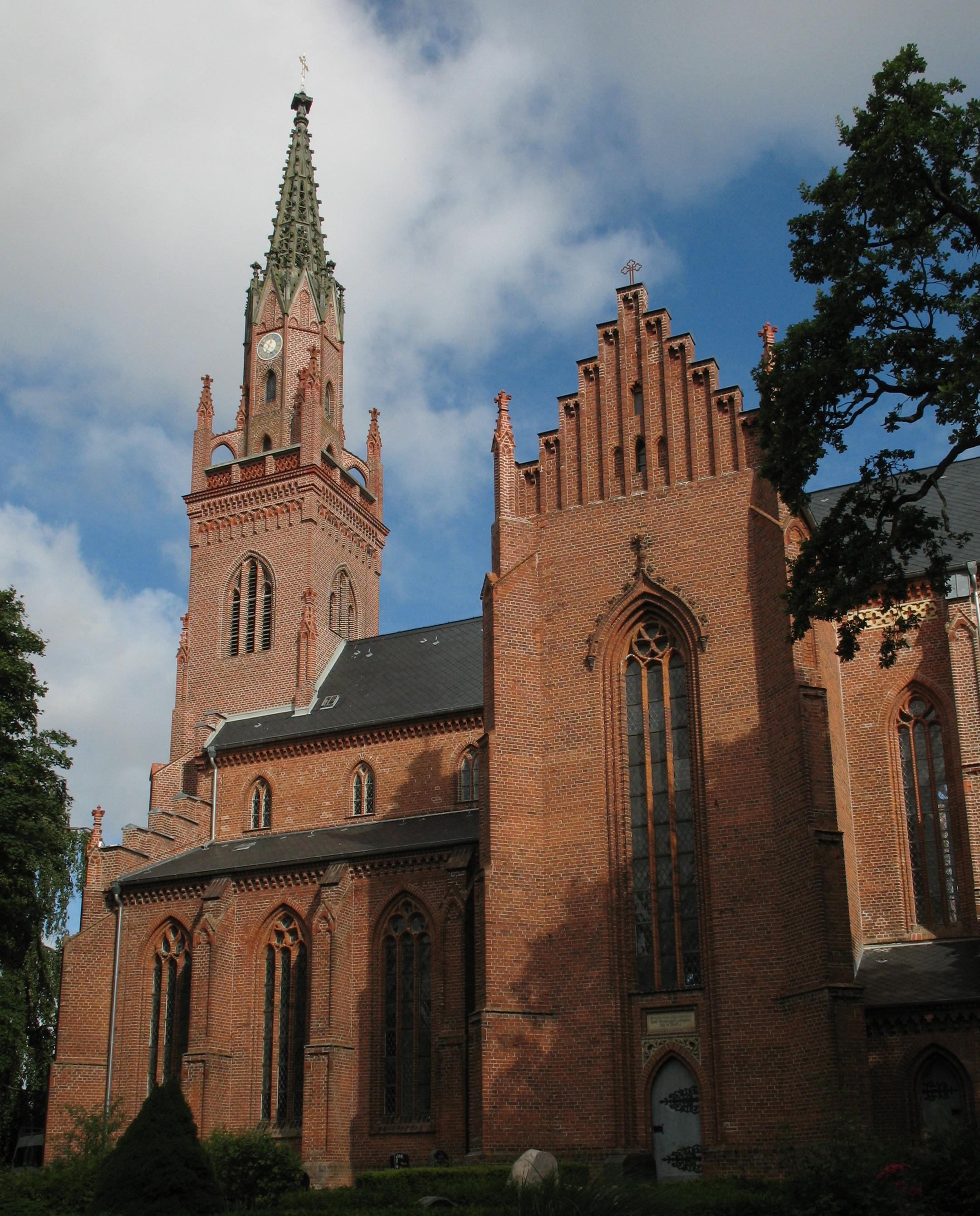 Church in Lalendorf-Schlieffenberg in Mecklenburg-Western Pomerania, Germany